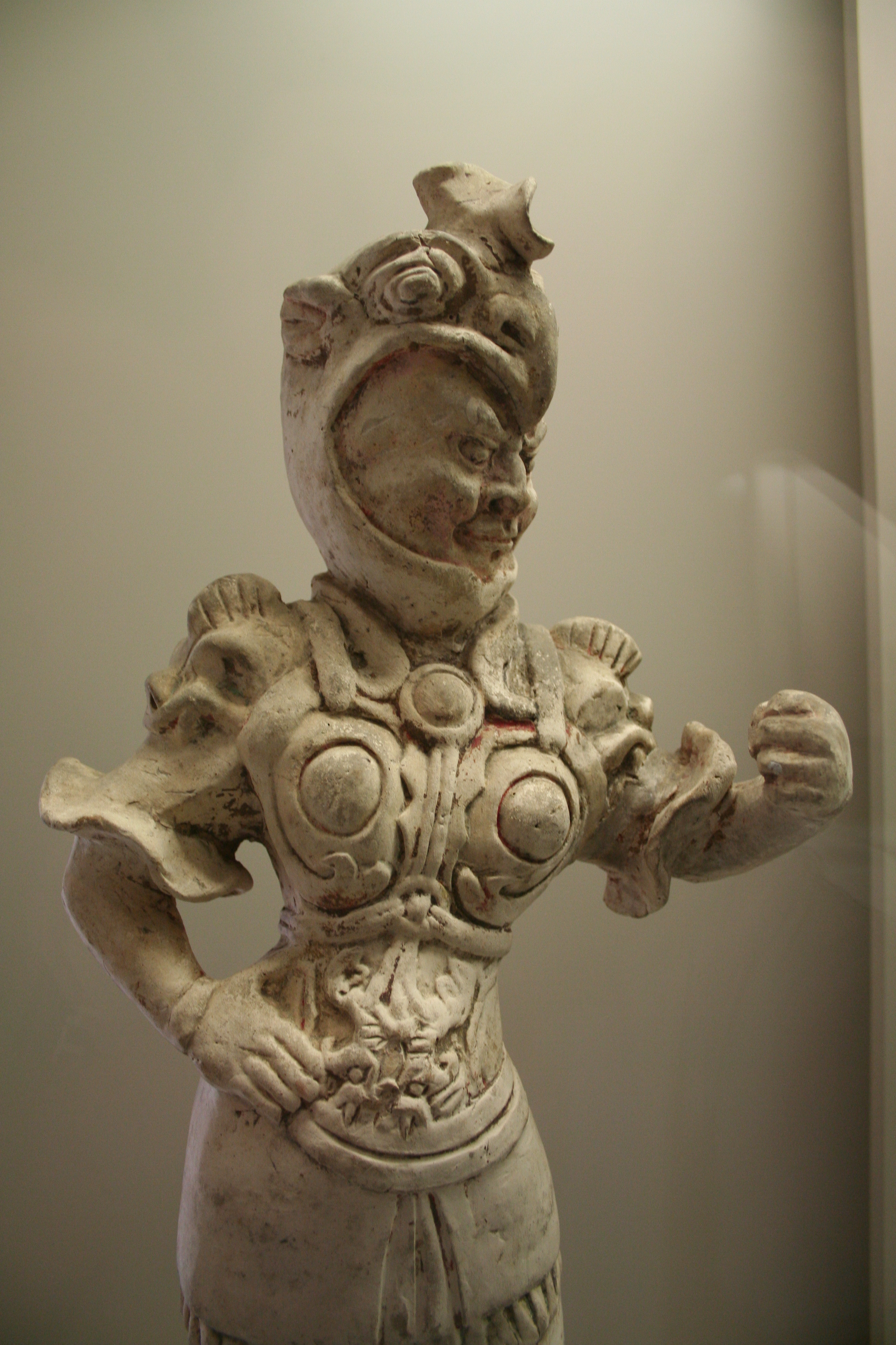 Tomb Guard (Wushi yong). Terra Cotta. Tang Dynasty (618 – 907). 7th – Early 8th Century. Cernuschi Museum, Paris, France.